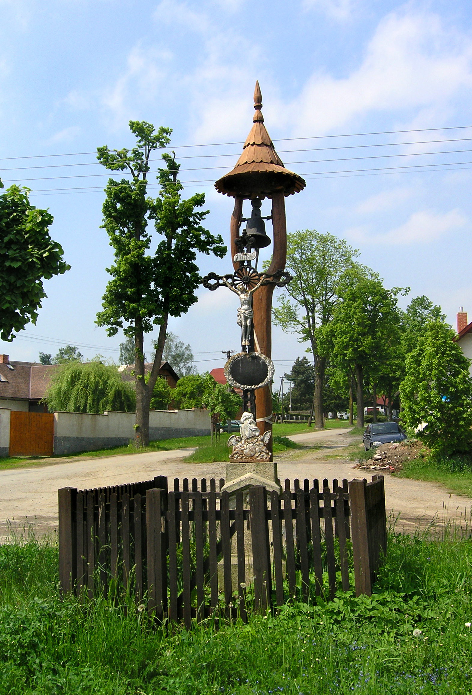 Common in Ždírec village, Czech Republic